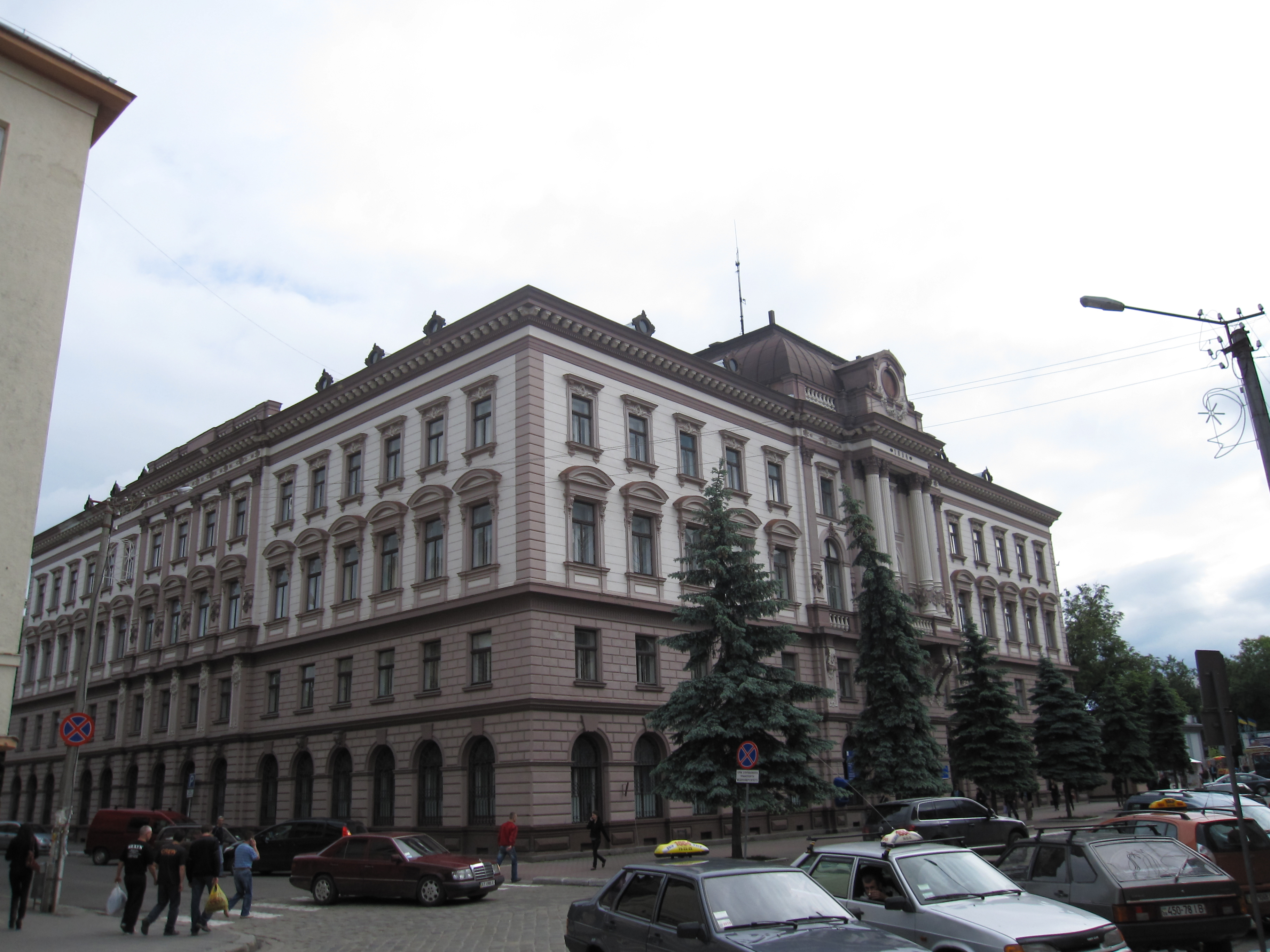 Old administrative building in Stanisławów, constructed during the Austro-Hungarian Empire.